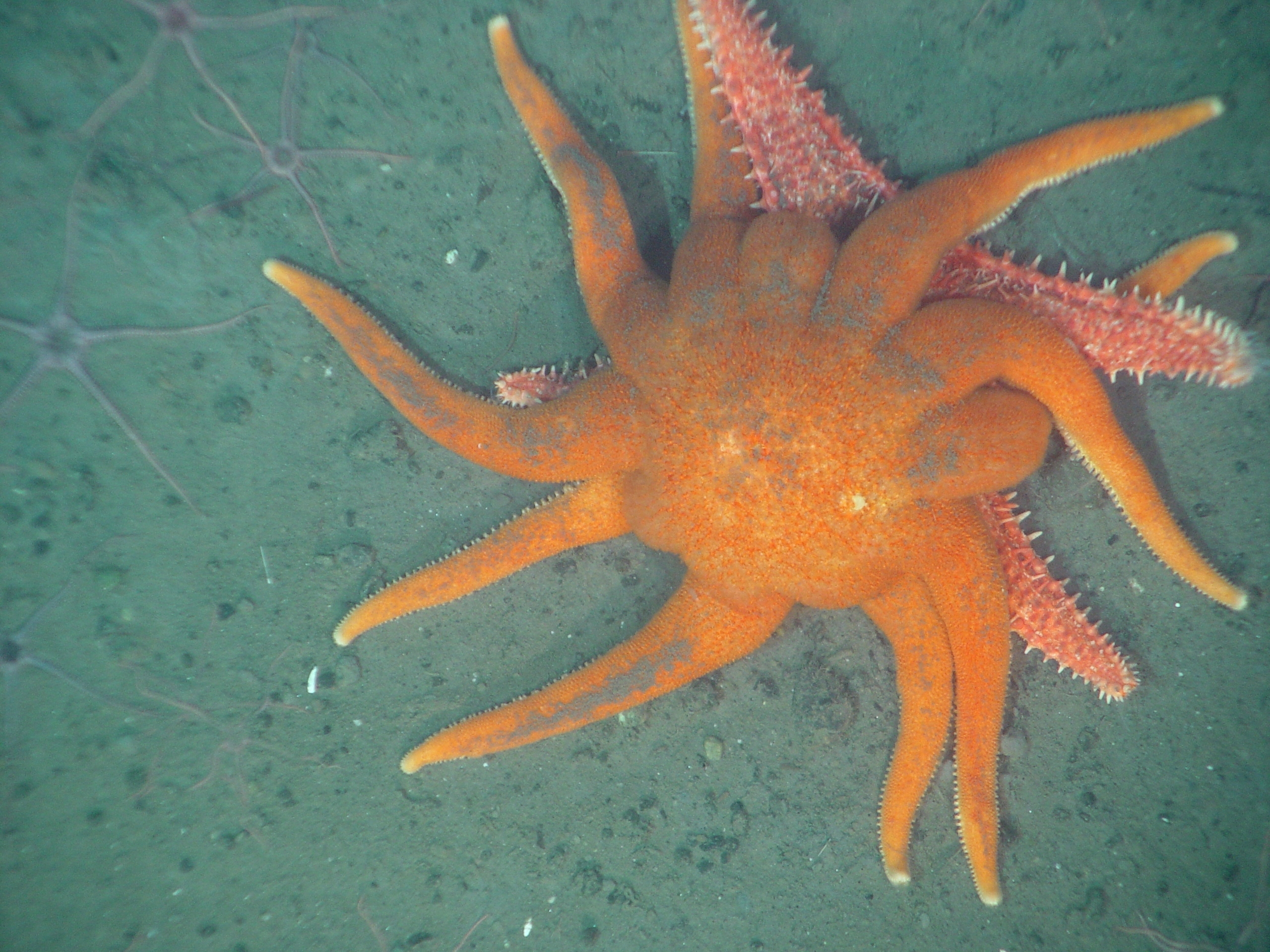 The sun star Solaster dawsoni attacking the spiny red sea star Hippasteria phrygiana. Washington, Olympic Coast NMS.